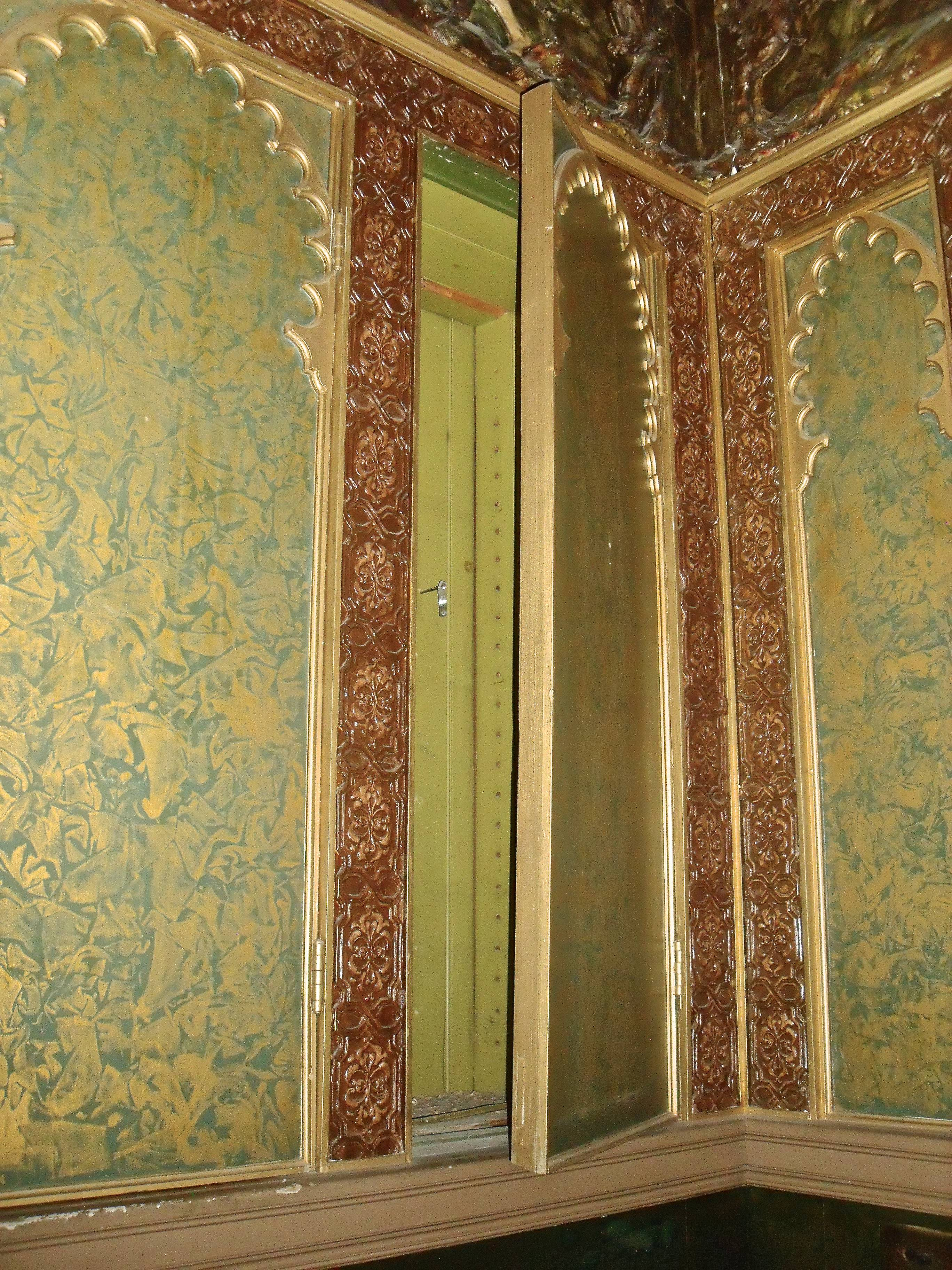 Hidden cupboard, Turkish room, Marius Dufresne House (Château Dufresne), 4040 Sherbrooke Street East, Montreal, Quebec, Canada.